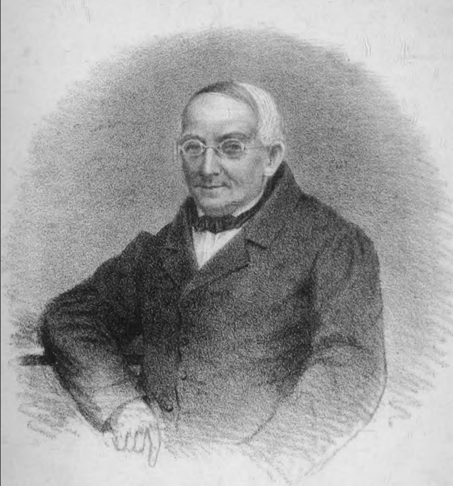 Elias Altschul, czech physician